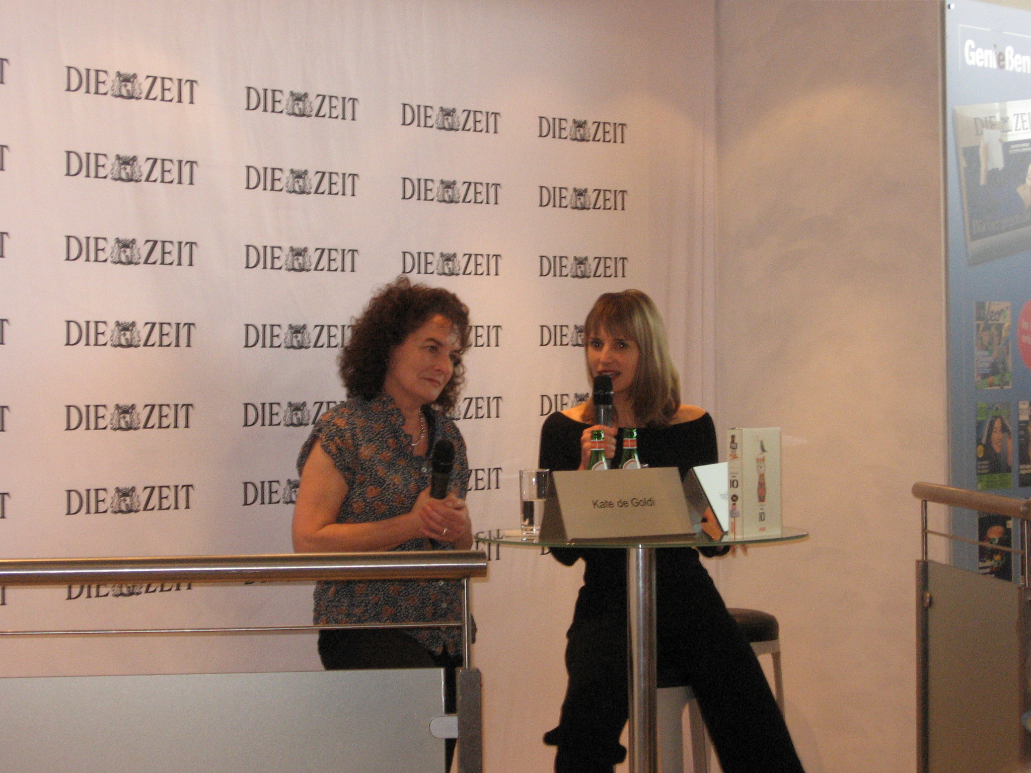 Die Autorin Kate de Goldi mit Inge Kutter von der Zeit auf dem Stand der Zeit auf der Buchmesse.